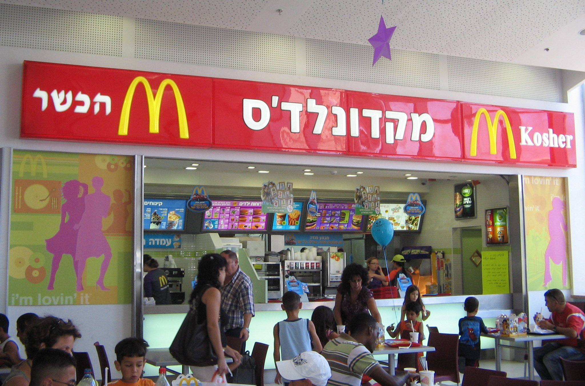 Kosher McDonalds restaurant in Ashqelon, Israel